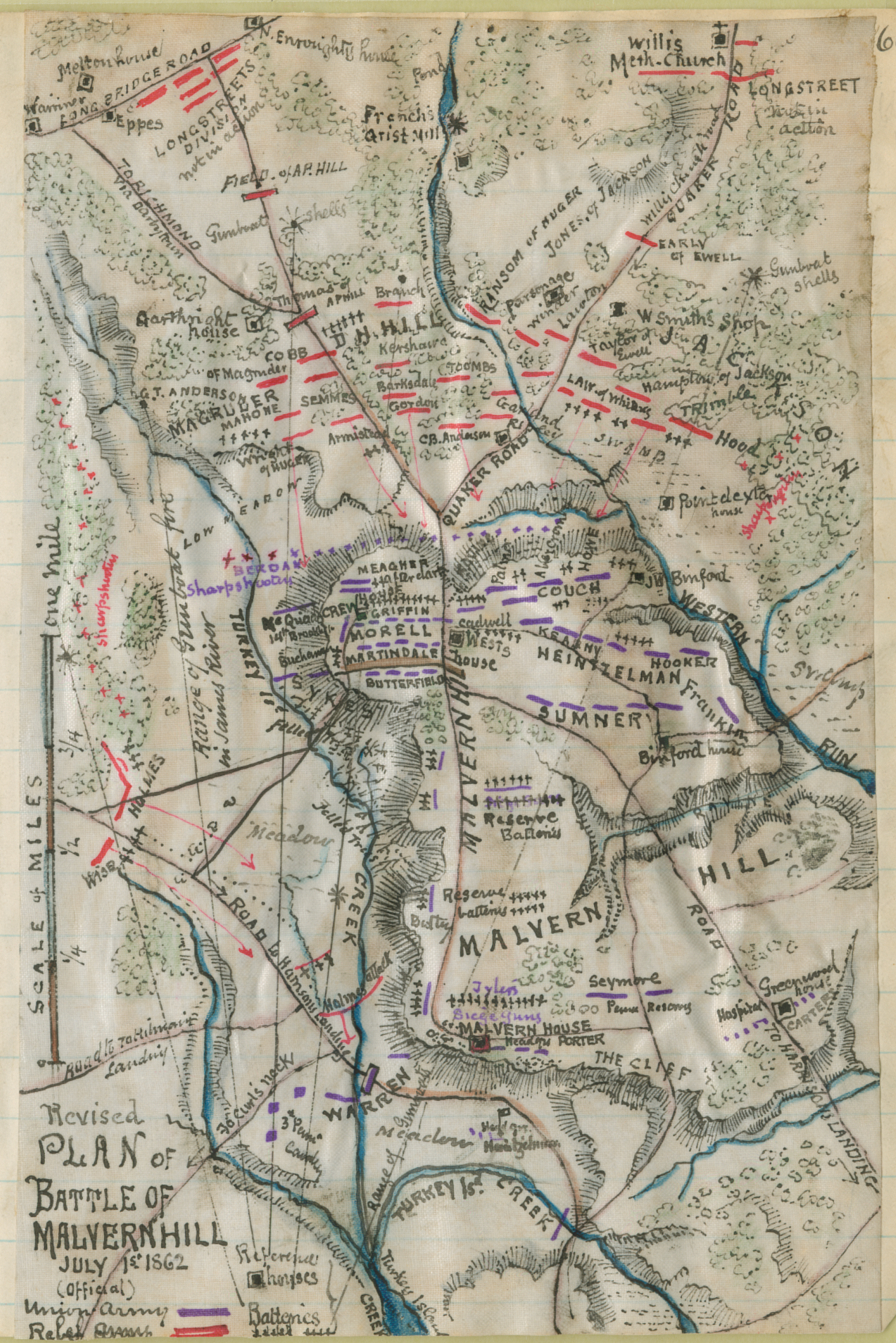 Revised Union battleplan for the Battle of Malvern Hill. This image from the American Memory Collections is available from the United States Library of Congress's National Digital Library Program under the digital ID gvhs01.vhs00034. This tag does not indicate the copyright status of the attached work. A normal copyright tag is still required. See Commons:Licensing for more information.